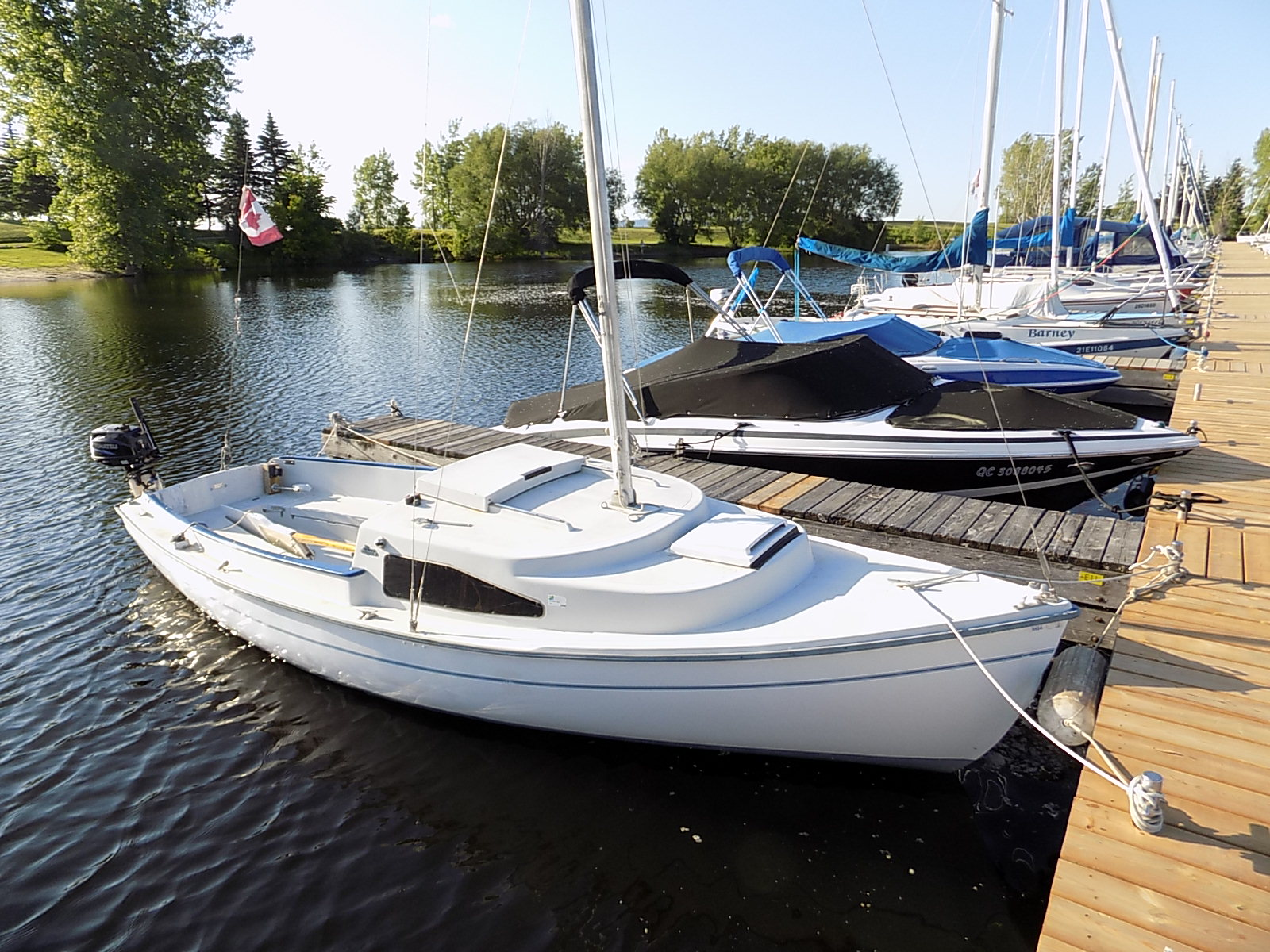 A Mariner 19 sailboat named Just Right.